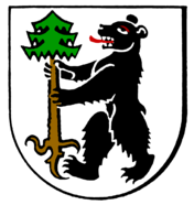 coat of arms city of Zernez (Switzerland)